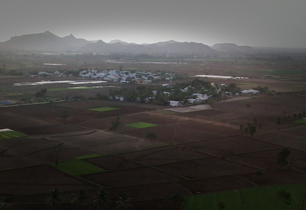 A picture taken in August 2014, depicting a top view of the village kenchanagudda.